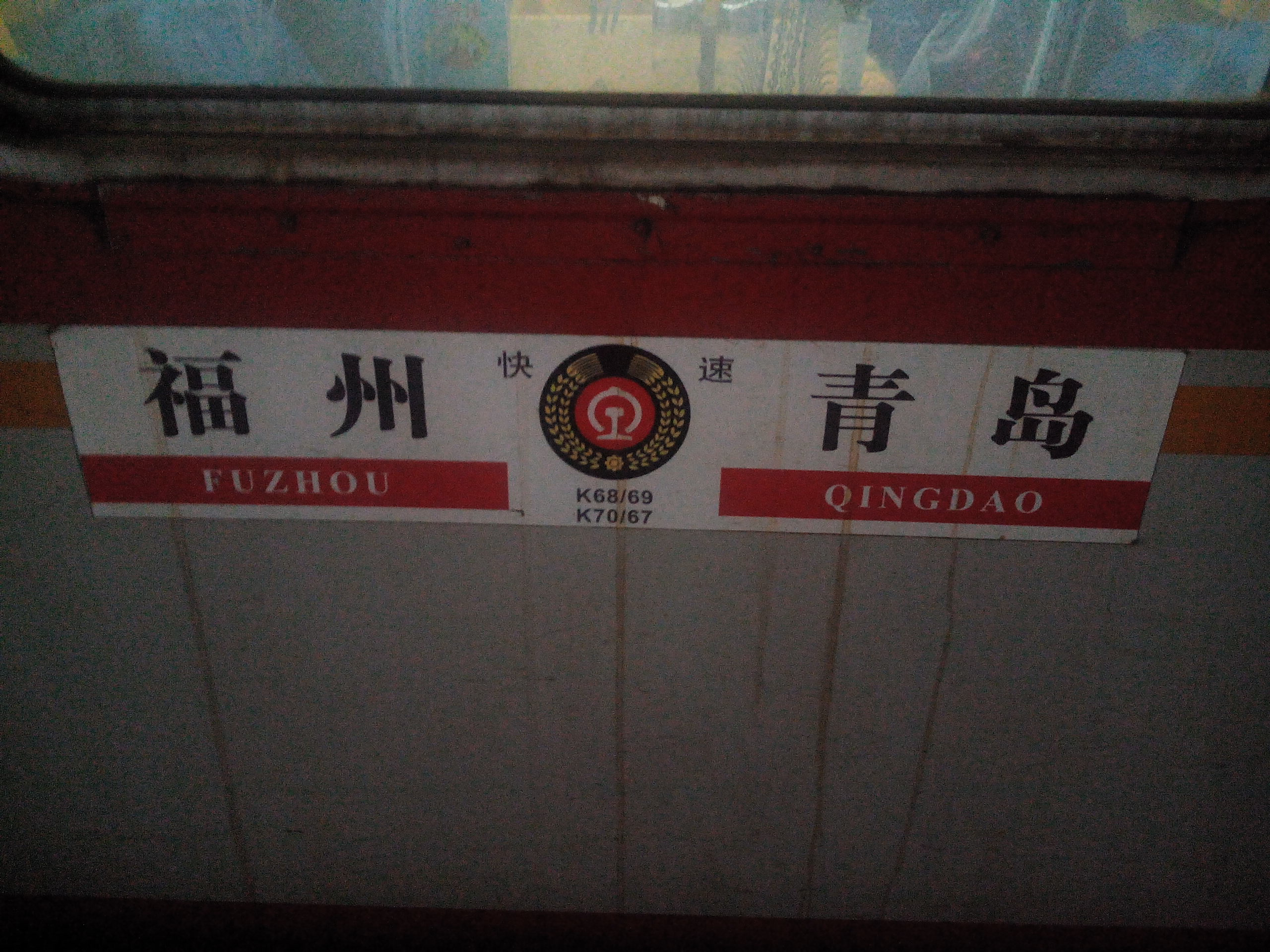 K67-68-69-70 infoboard in 201508